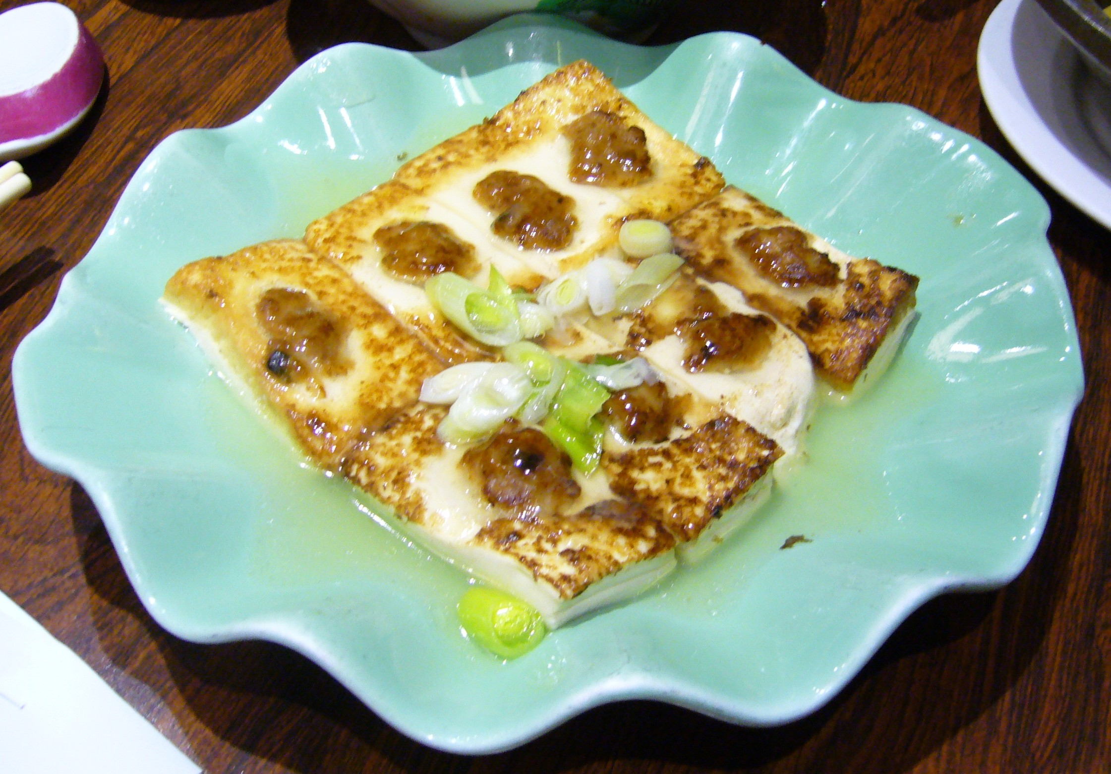 Ngiong Tew Foo (釀豆腐, stuffed tofu cube) as served at Hong Kong theme restaurant Hakka Hut.